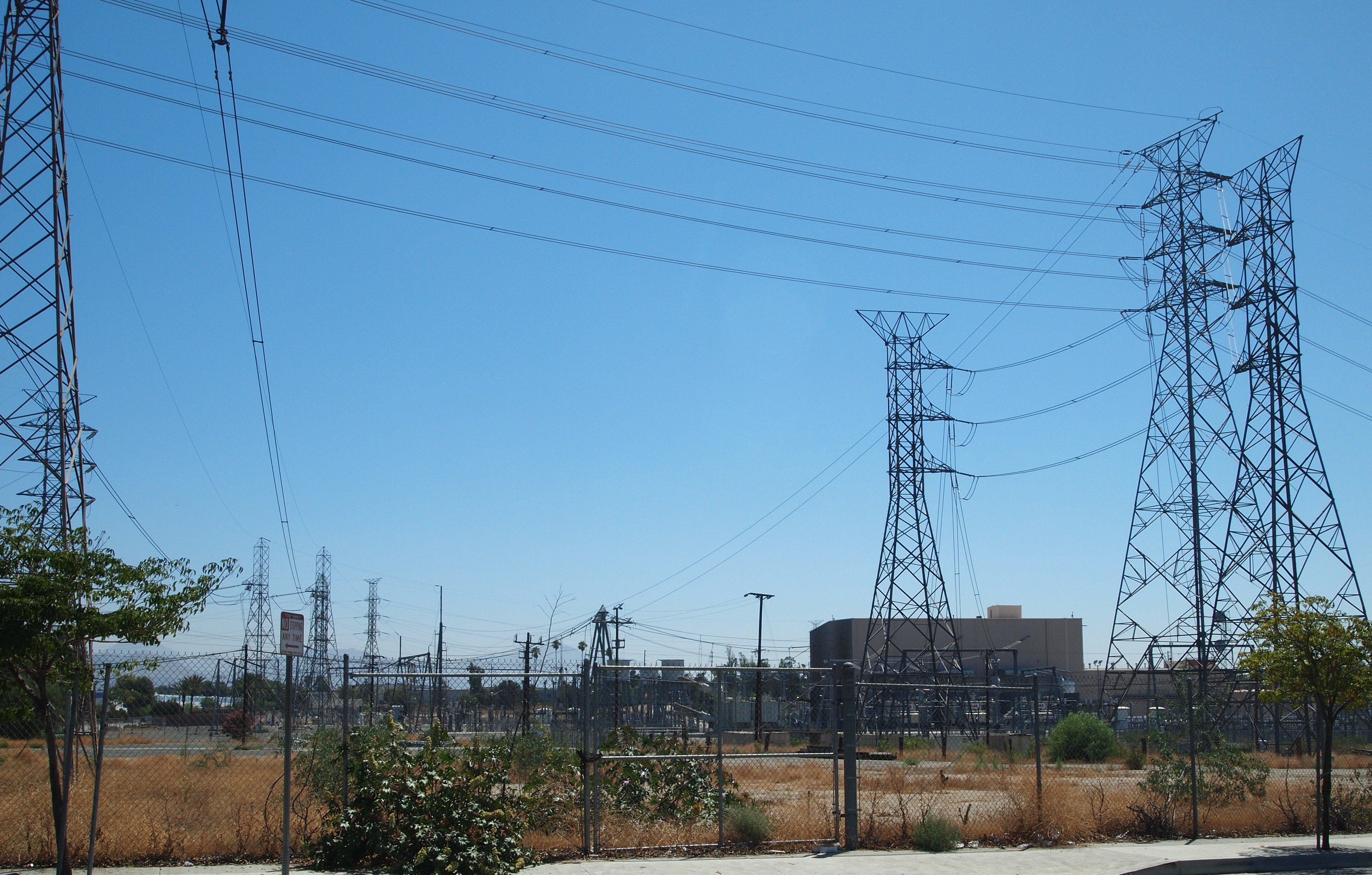 Sylmar Converter Station (Sylmar East) with 3,100 MW converters to convert high-voltage direct current (the left most tower) to 60 Hz and 230 kV alternating current synchronized with the Los Angeles power grid (towers on the right).